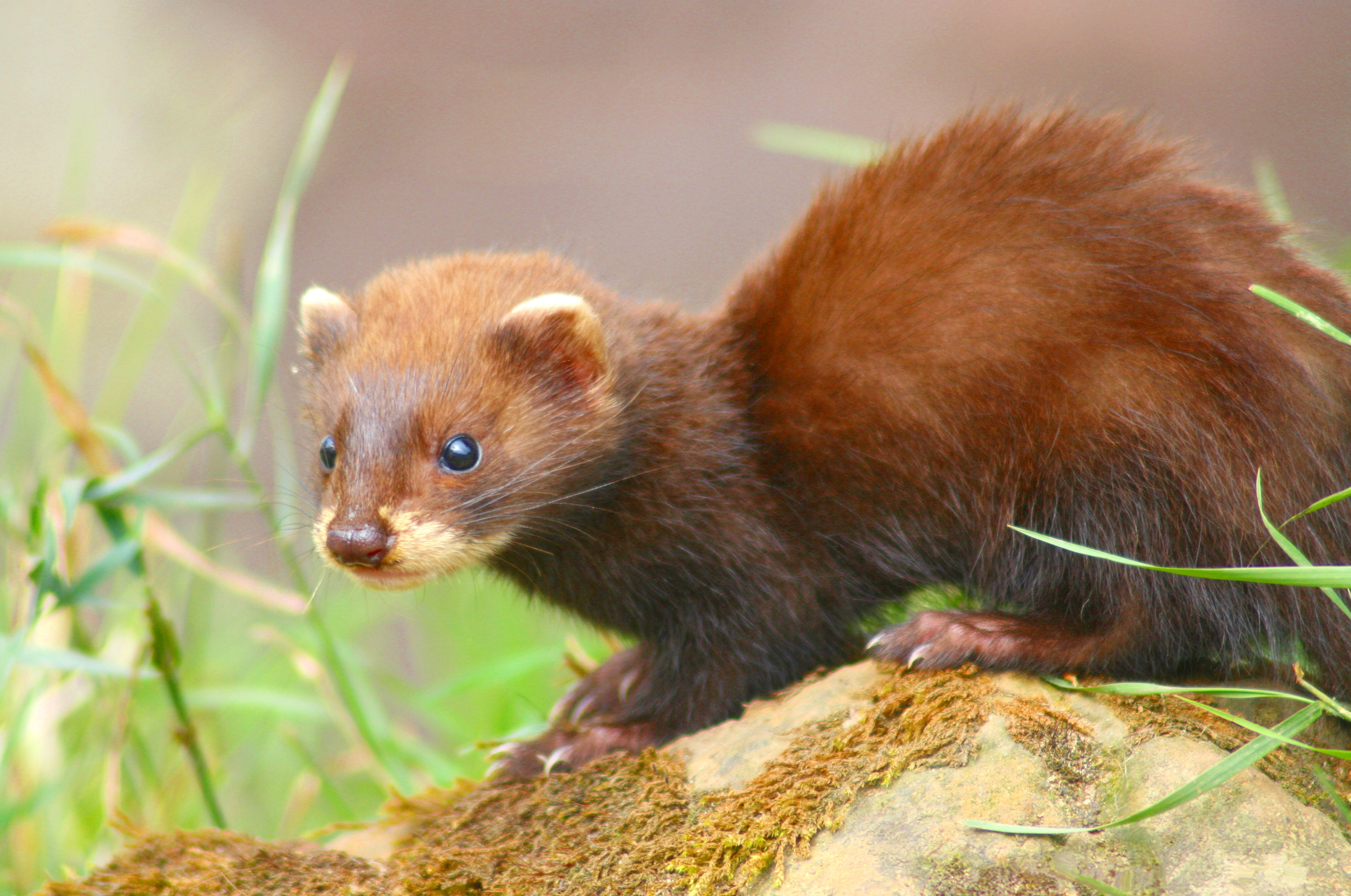 European Polecat (Mustela putorius); a juvenile at British Wildlife Centre, Surrey, England. Highest Explore Position #123 ~ On August 19th 2008. Baby European Polecat - British Wildlife Centre, Surrey, England - Sunday August 17th 2008. Click here to see the Larger image European Polecat ~ Mustela putorius ~ A member of the weasel family (Mustelids), polecats were once widespread and common throughout mainland Britain. Relentless persecution by gamekeepers up until the late 1930's resulted in extermination everywhere except for a small population in north Wales. They have since recovered and are now found throughout rural Wales, the Border counties and are spreading across the Midlands, South and into the South-East. They are solitary in nature and active throughout the year. They favoured habitat is woodland, riverbank and surrounding farmland. They will hunt by night or by day for small rodents, birds and insects using a keen sense of smell to locate their prey. They emit a pungent musky odour, particularly when threatened. The polecat is the ancestor of the domestic ferret and can interbreed with them. Origin ~ Native of the United Kingdom. Size ~ Male length: 55 cm plus 20 cm tail. Female length: 50 cm plus 16 cm tail - about the same size as a ferret. Description ~ Sexes alike. Fur long, almost black with purple sheen showing buff undercoat. White markings on face and ears. Habitat ~ Favours lowland country below 500m in woodland, marsh, riverbanks, farmland and farm buildings. Young ~ One litter of 3 -7 young born May or June after 40 days gestation. Fully grown in 3 months. Diet ~ Frogs, water voles, trout, eels, rabbits, snakes and ground nesting birds. Population Pre-breeding season estimated to be 63,000 and increasing.